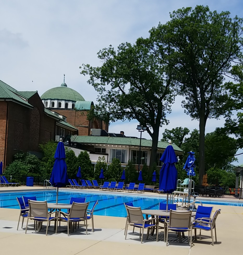 Medinah Country Club's Pool and clubhouse